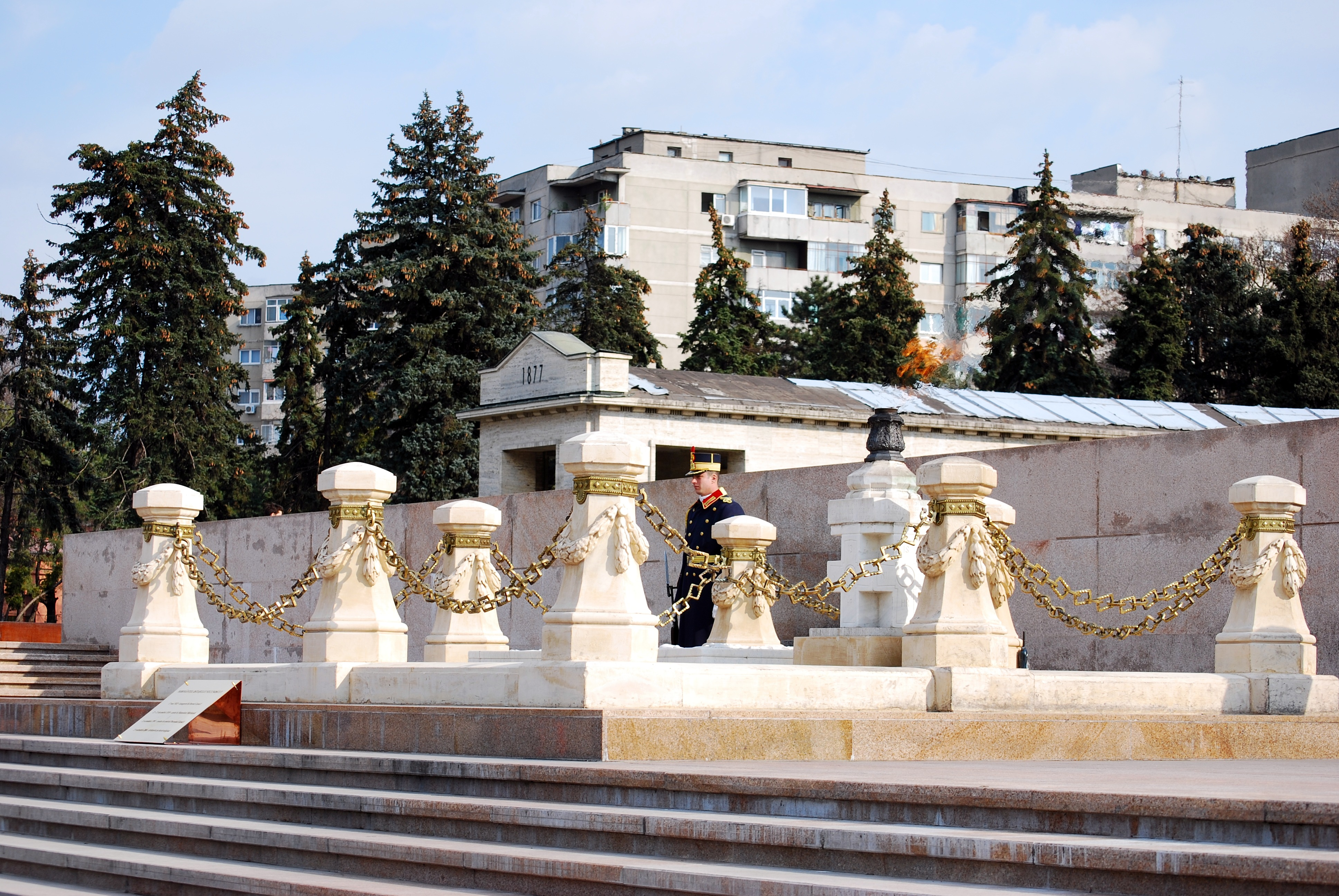 The Tomb of the Unknown Romanian Soldier, in Carol I Park, Bucharest, Romania